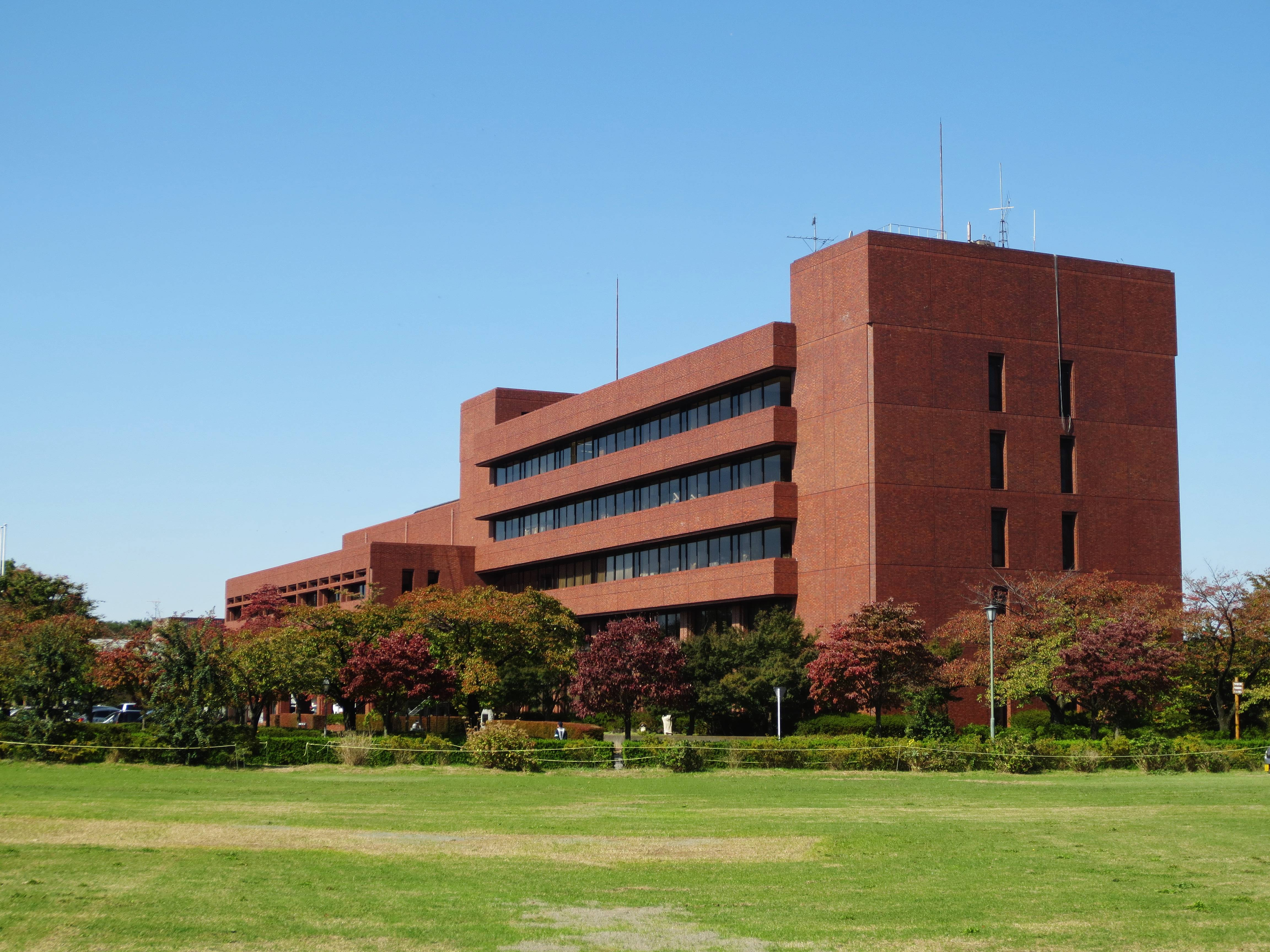 Tatebayashi city office.